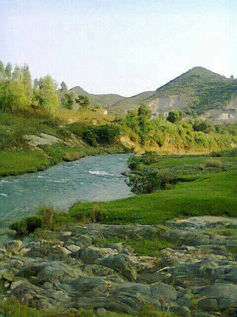 Maidan (Medan) Valley, Lower Dir District, KPK, Pakistan